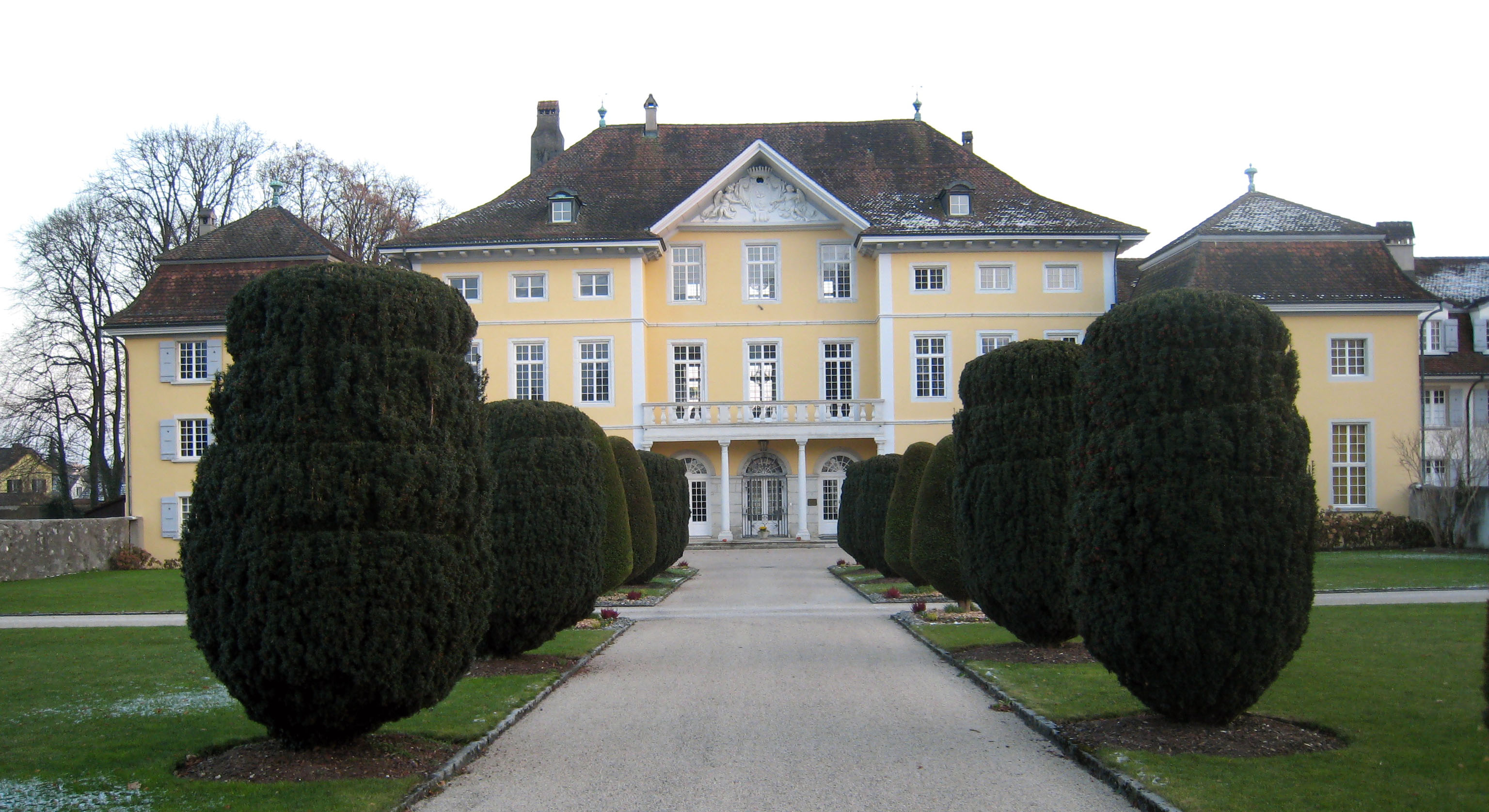 Steinbrugg Palace, Solothurn.